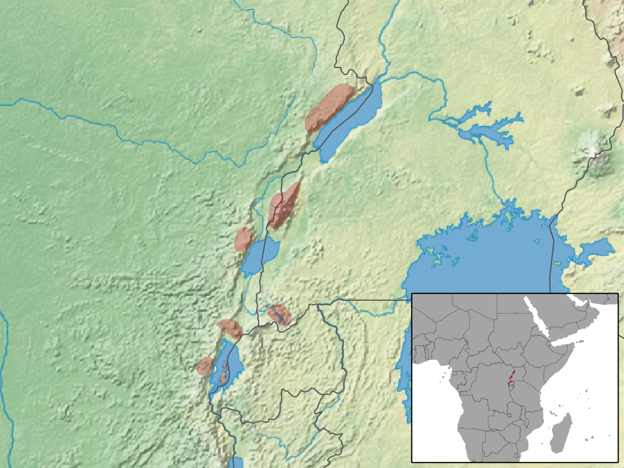 geographic distribution of Thamnomys venustus